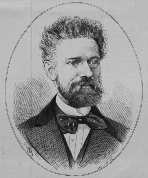 Portrait of the playwright Ede Tóth